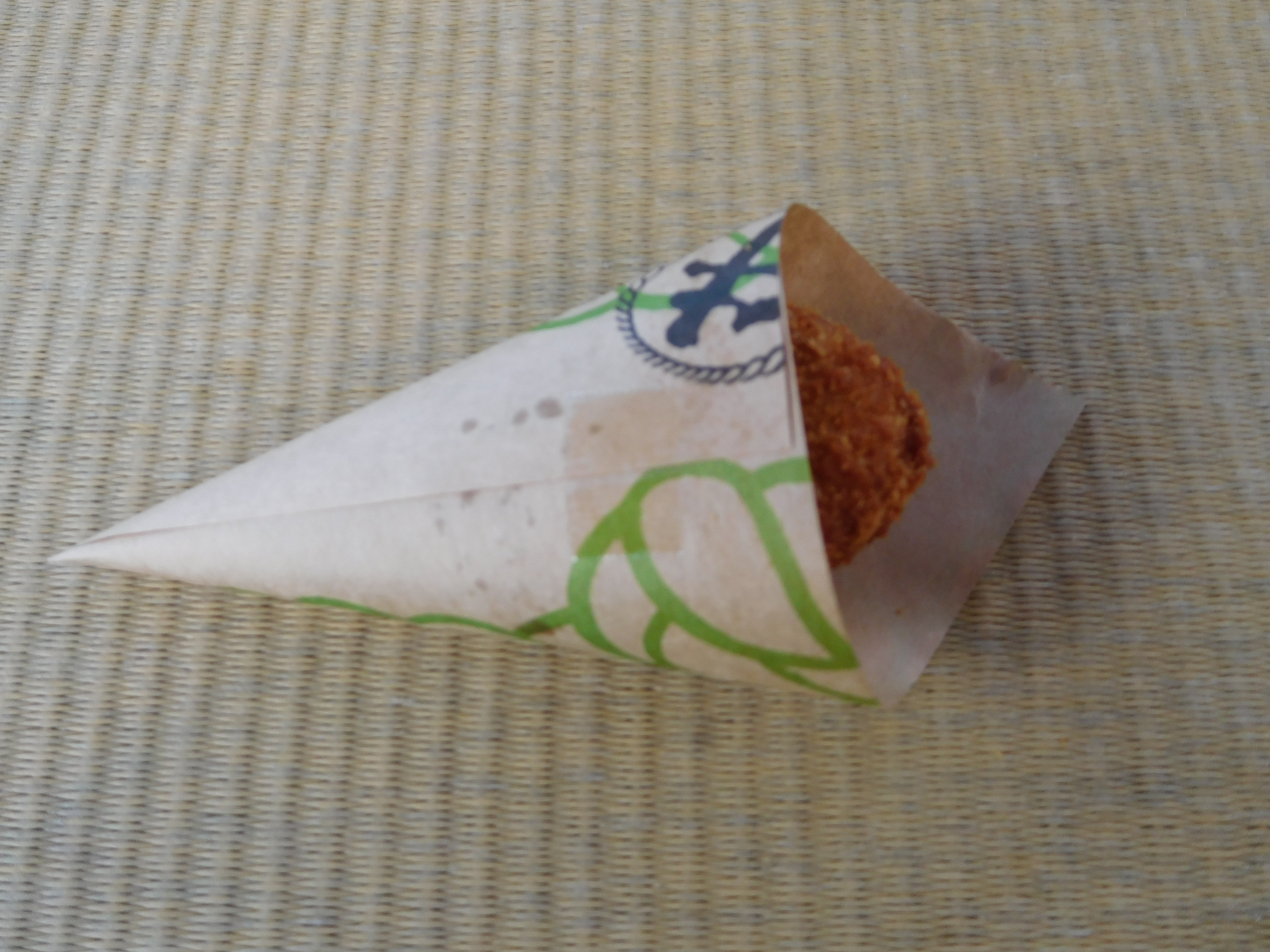 This is Ise beef Korokke. It was served by Butasute Okage Yokocho shop.